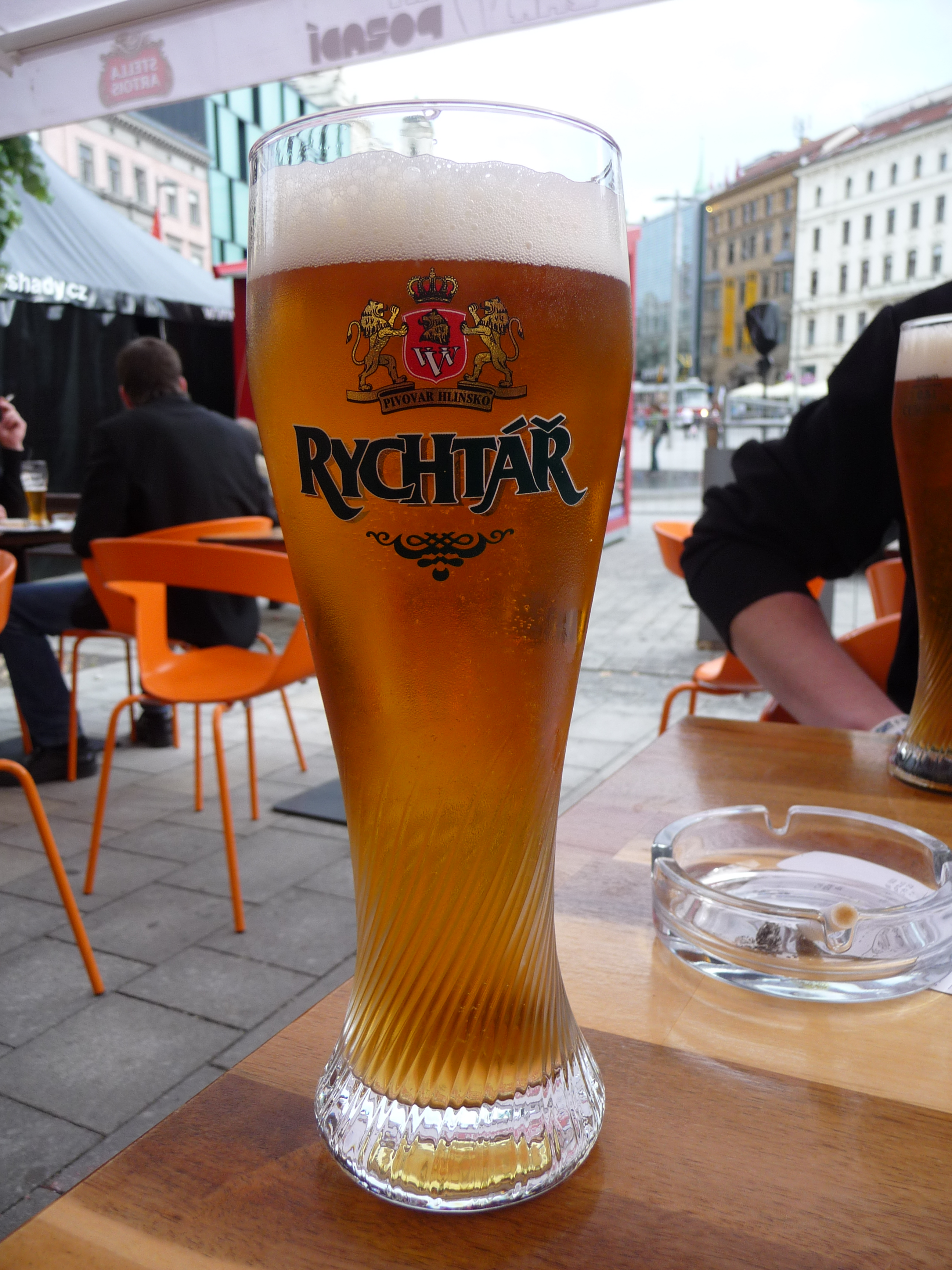 Beer Rychtář